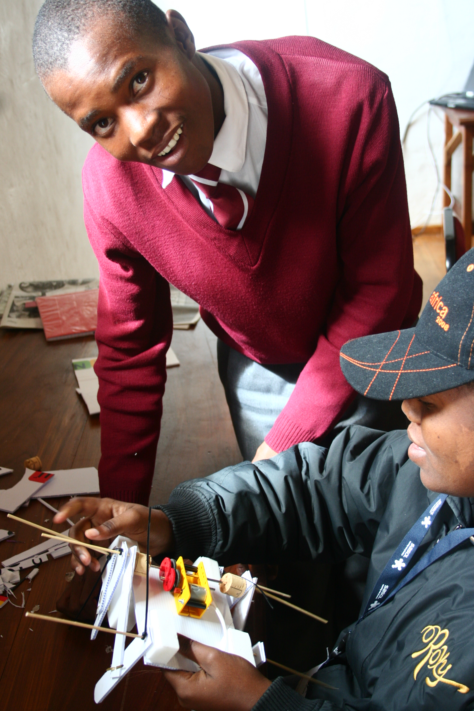 Two youngs at the 2008 Scifest festival during a robotics workshop. The workshop was called SolarPod and the children had to built small legged robots powered by solar energy.